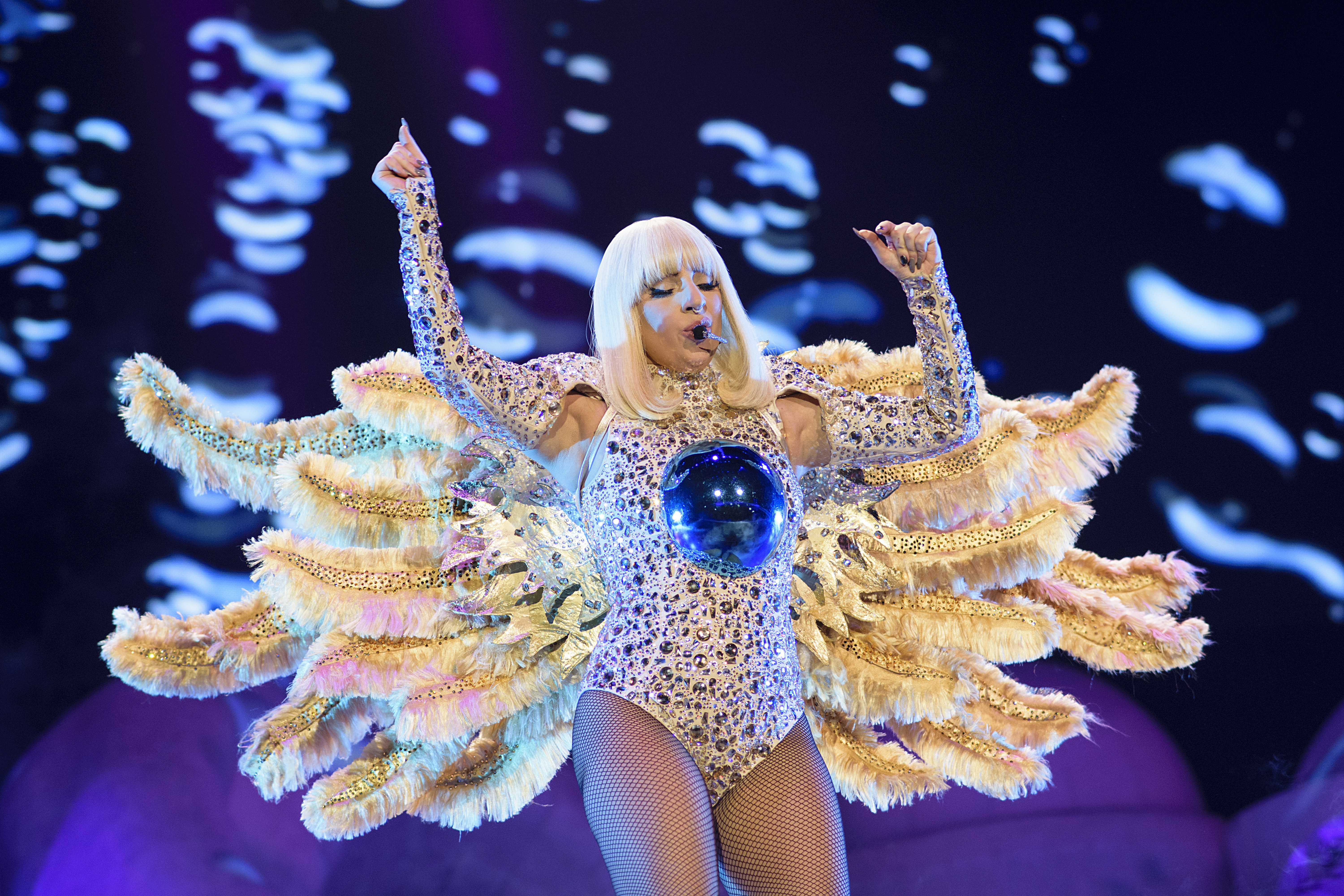 Lady Gaga performing "Artpop" during her Artpop Ball tour at the O2, in London